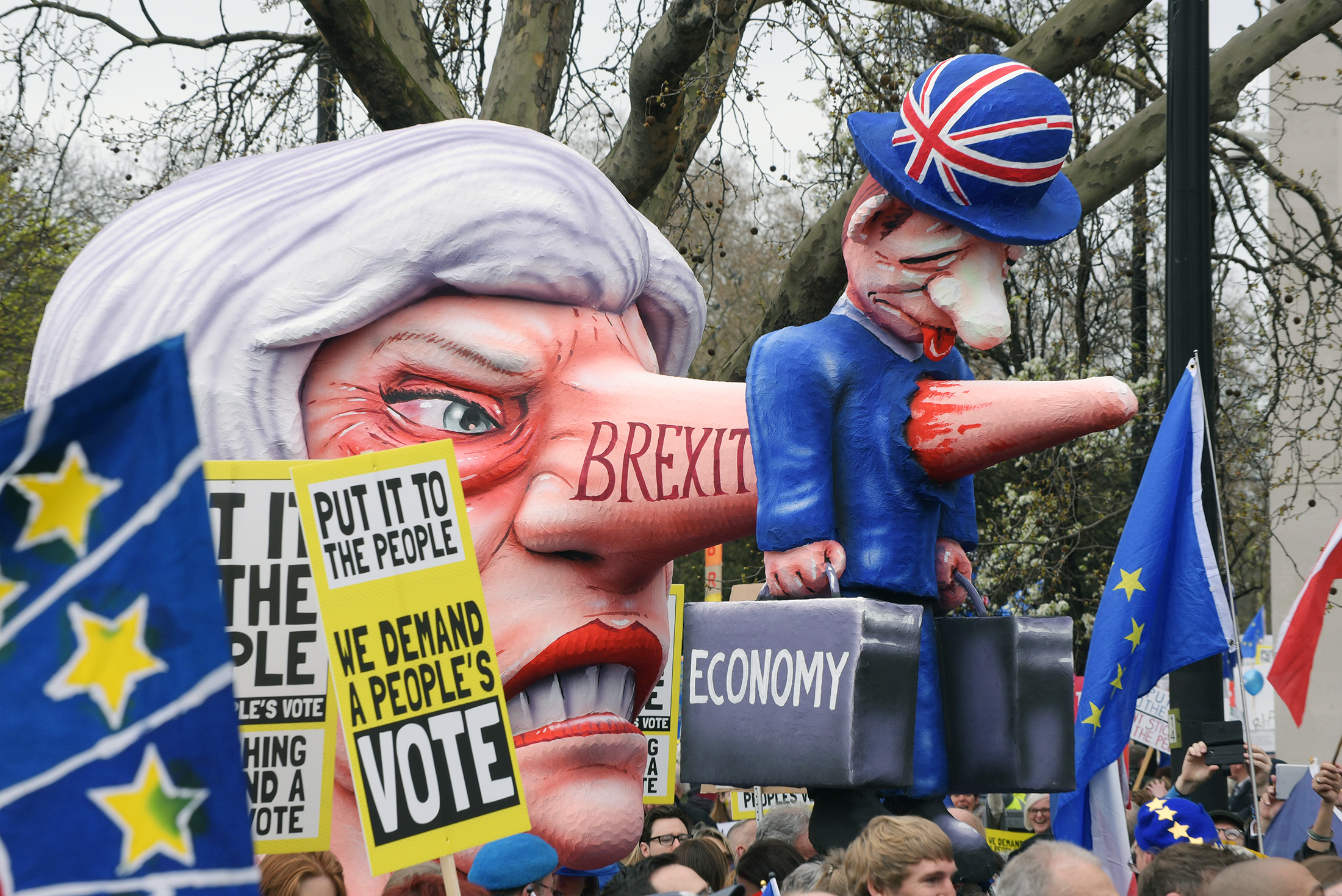 Put It To The People March #14, London, UK